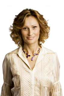 Portrait of Slovak politician Zuzana Martináková